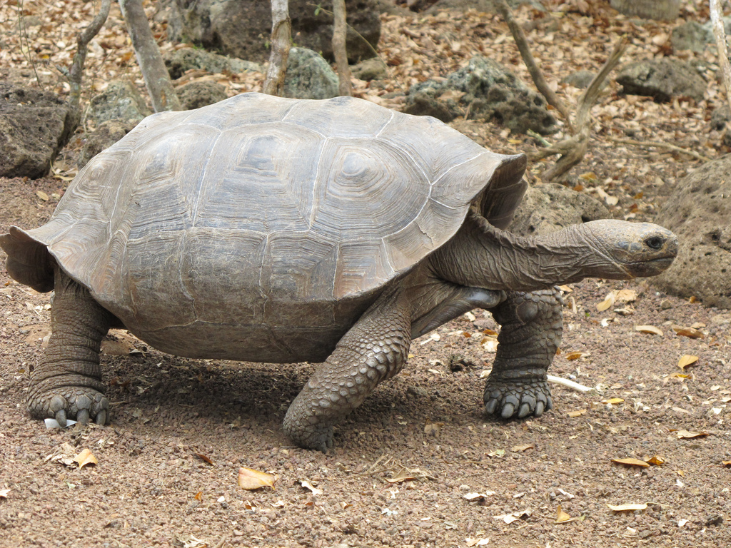 G. n. chathamensis on Chatham Island (San Cristobal)